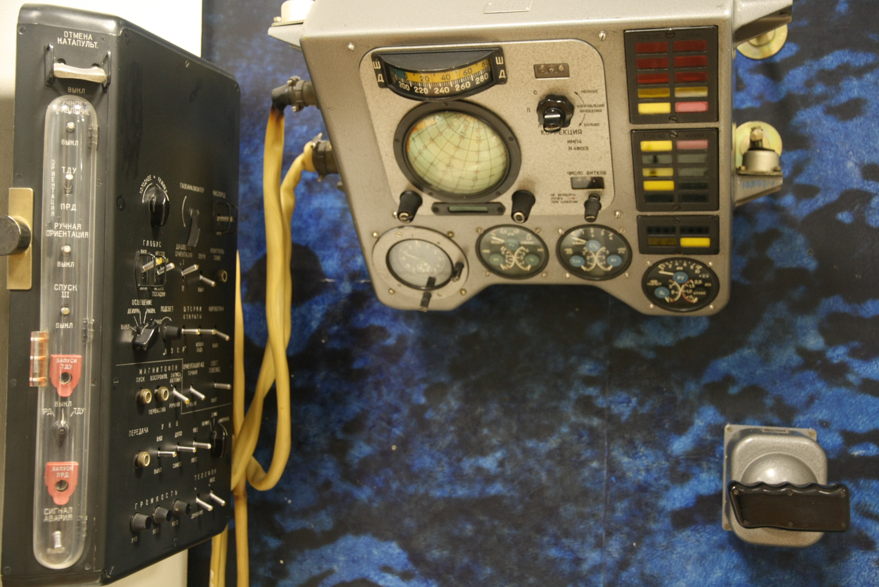 Layout of Vostok spacecraft cabin. Left: Main switchboard (ПКРС,PKRS, Panel of rocket systems control). Center: Panel with flight instruments, indicators and annunciators. Right: hand controller ("stick") of reaction control system thrusters. Photographed in Polytechnic museum, Moscow.